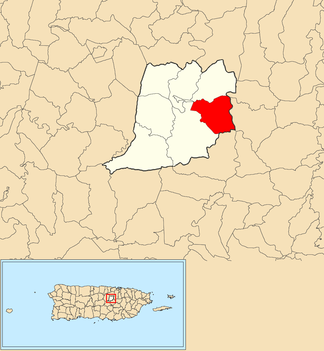 Nuevo, Naranjito, Puerto Rico locator map